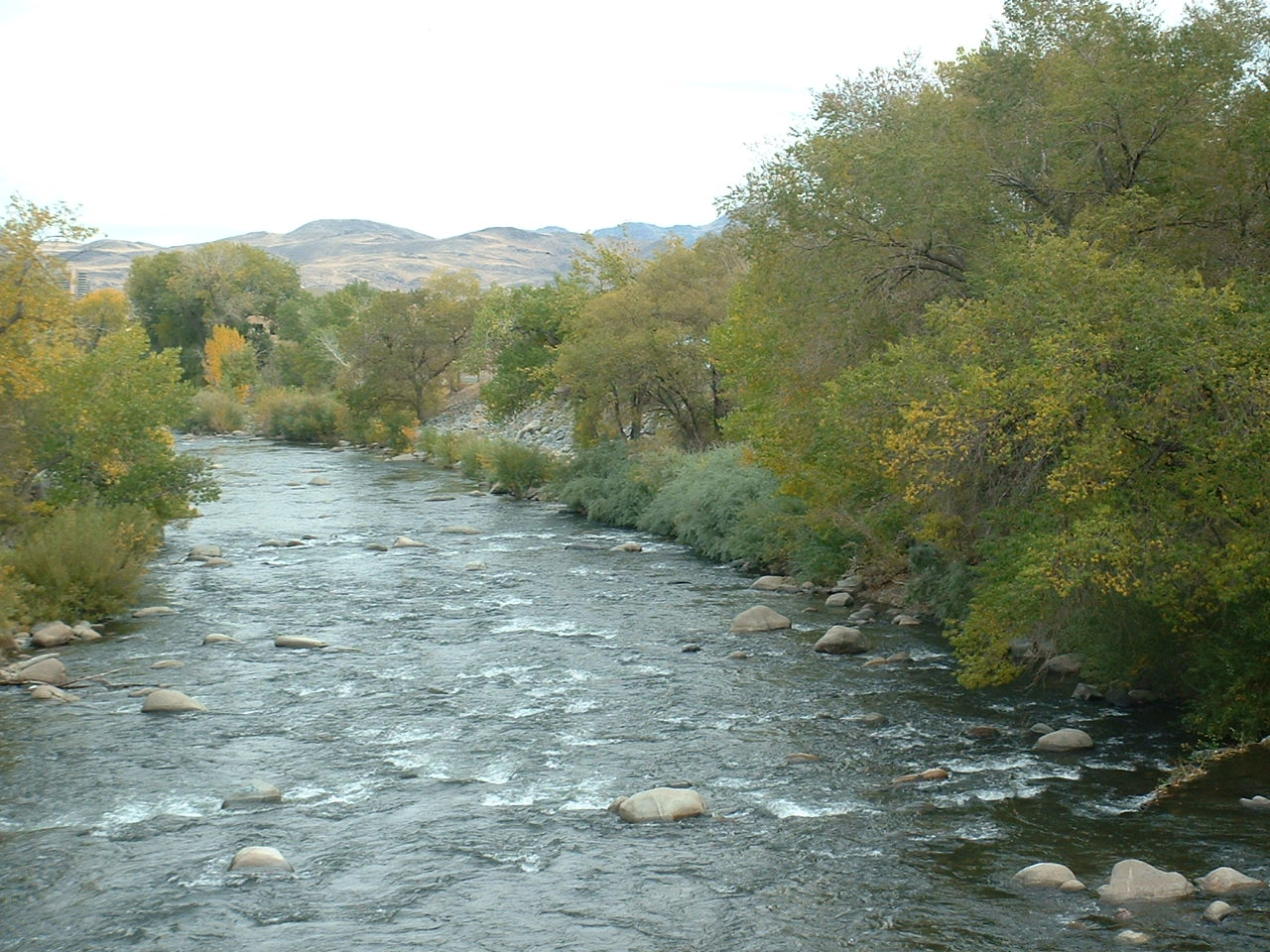 Truckee River Reno, Nevada